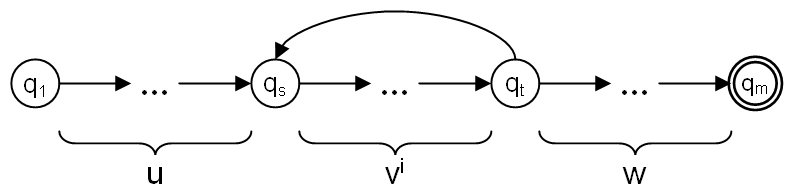 Demonstration of the pumping lemma for regular languages: Whenever a finite automaton A with n states recognizes a word uvw (shown: starting from an initial state q1, A reaches an accepting state qm on input uvw) of more than n characters, A must reach some state twice (shown: qs = qt). Hence when the middle part v is repeated ("pumped") arbitrarily often (e.g. uvvw, uvvvw, ...), the word is still recognized.